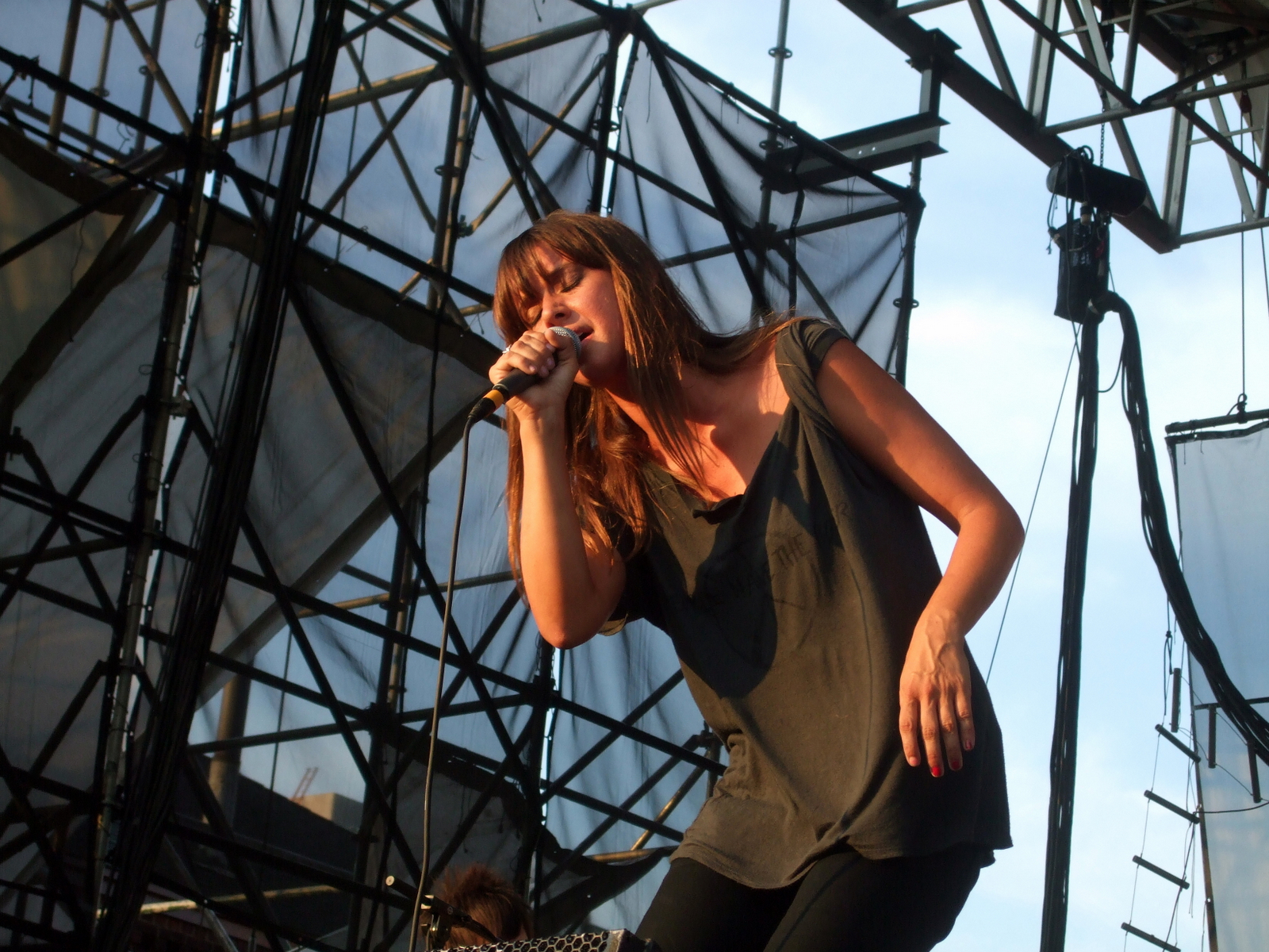 Cat Power performing at McCarren Park Pool, New York, 2007